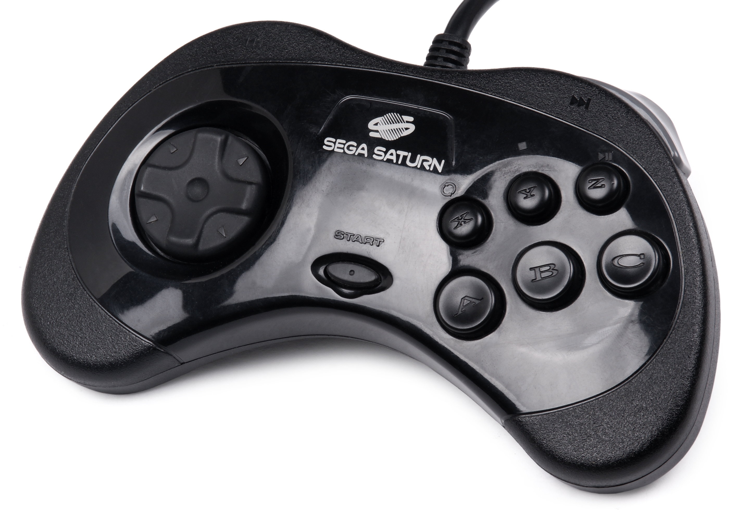 The US Sega Saturn controller, model 2 version. Replaced the model 1 version of the controller as the pack-in, much like the Xbox S controller did to the Duke.